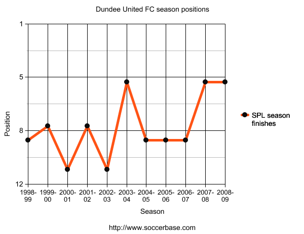 Author: Fedgin